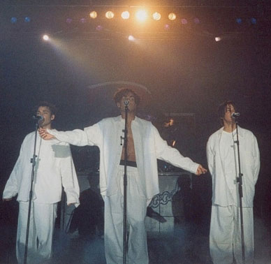 Boygroup 3T singing "I need you" during their concert in Hannover, Germany (Brotherhood Tour 1996)